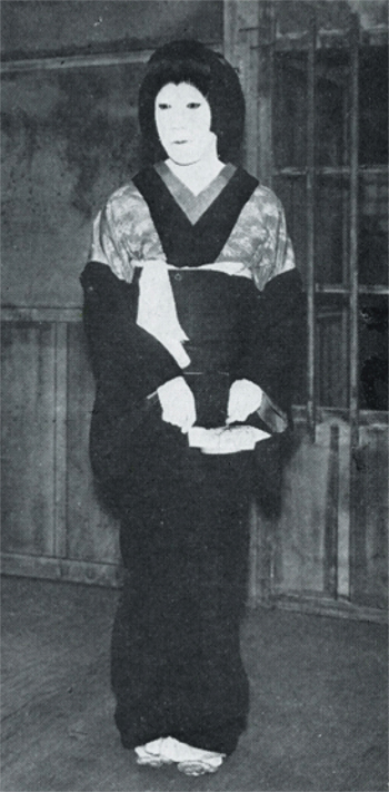 Tokizō Nakamura III as Orie in Taiheiki Chūshin Kōshaku, Act VII